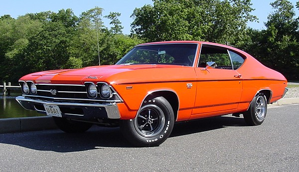 69 Chevelle SS396